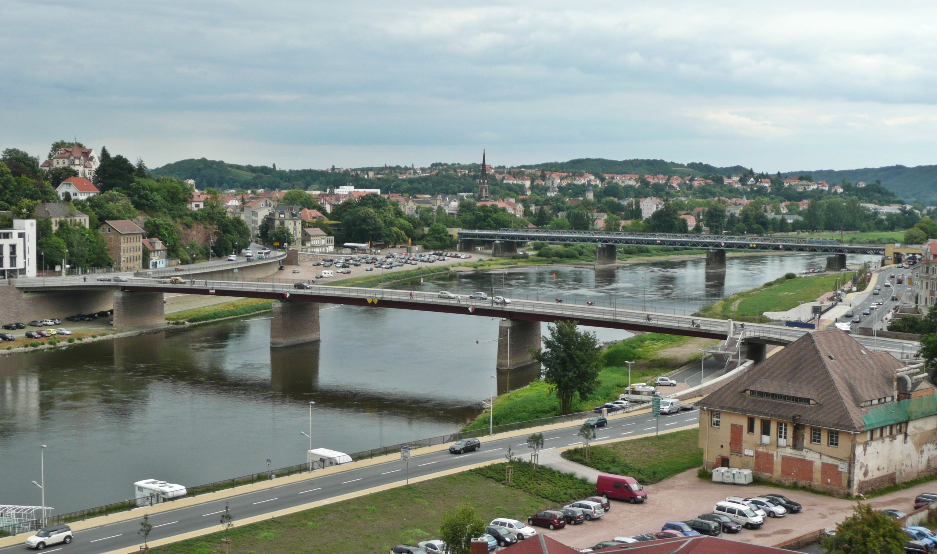 This image shows two of the three bridges over the Elbe in Meißen. foreground: old road bridge, new building from 1999/2000, length 205 metres; background: railway bridge from 1926, length: 256 metres.